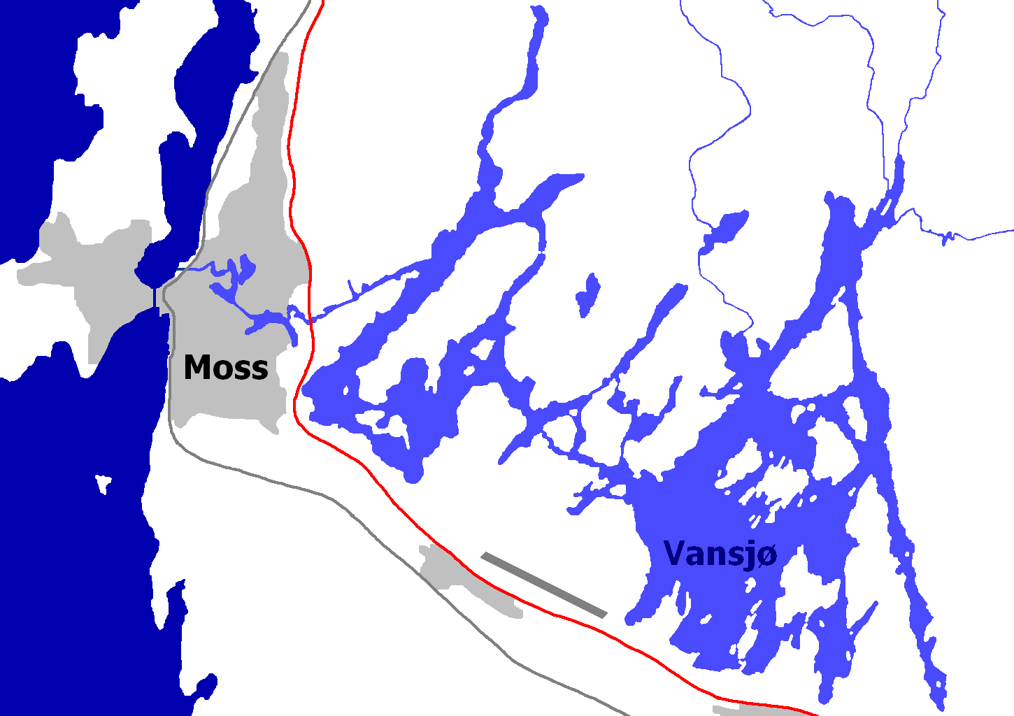 Map of the lake Vansjø. Created by JohnM 19:55, 20 May 2006 (UTC)